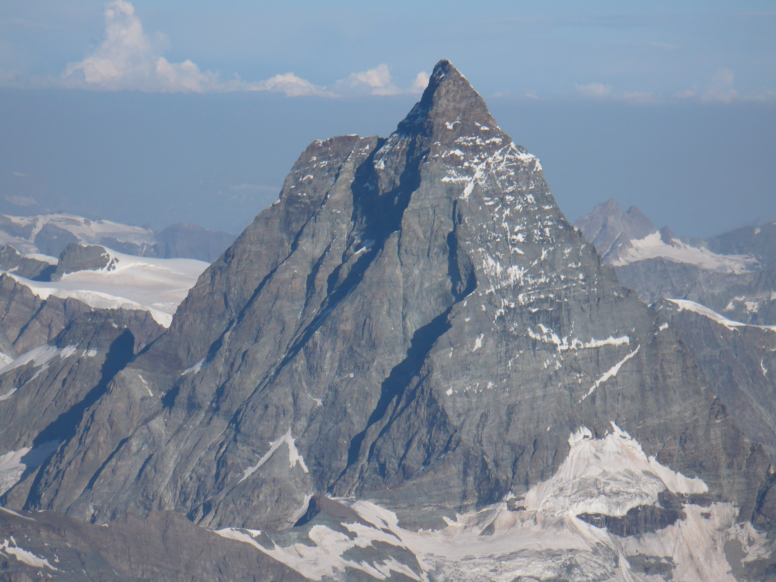 Matterhorn -face sud and est from Lyskamm